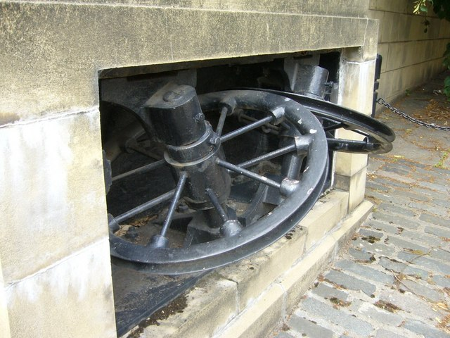 Tramcar pulley unit , Henderson Row